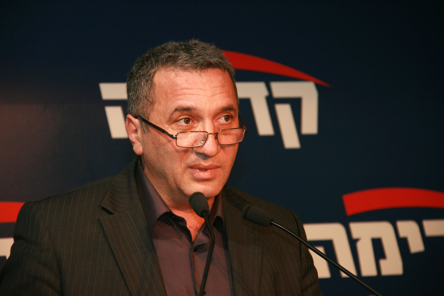 MK Robert Tiviaev, Kadima Party (Israel). Photo by: Itzik Edri, Kadima Party PR Team